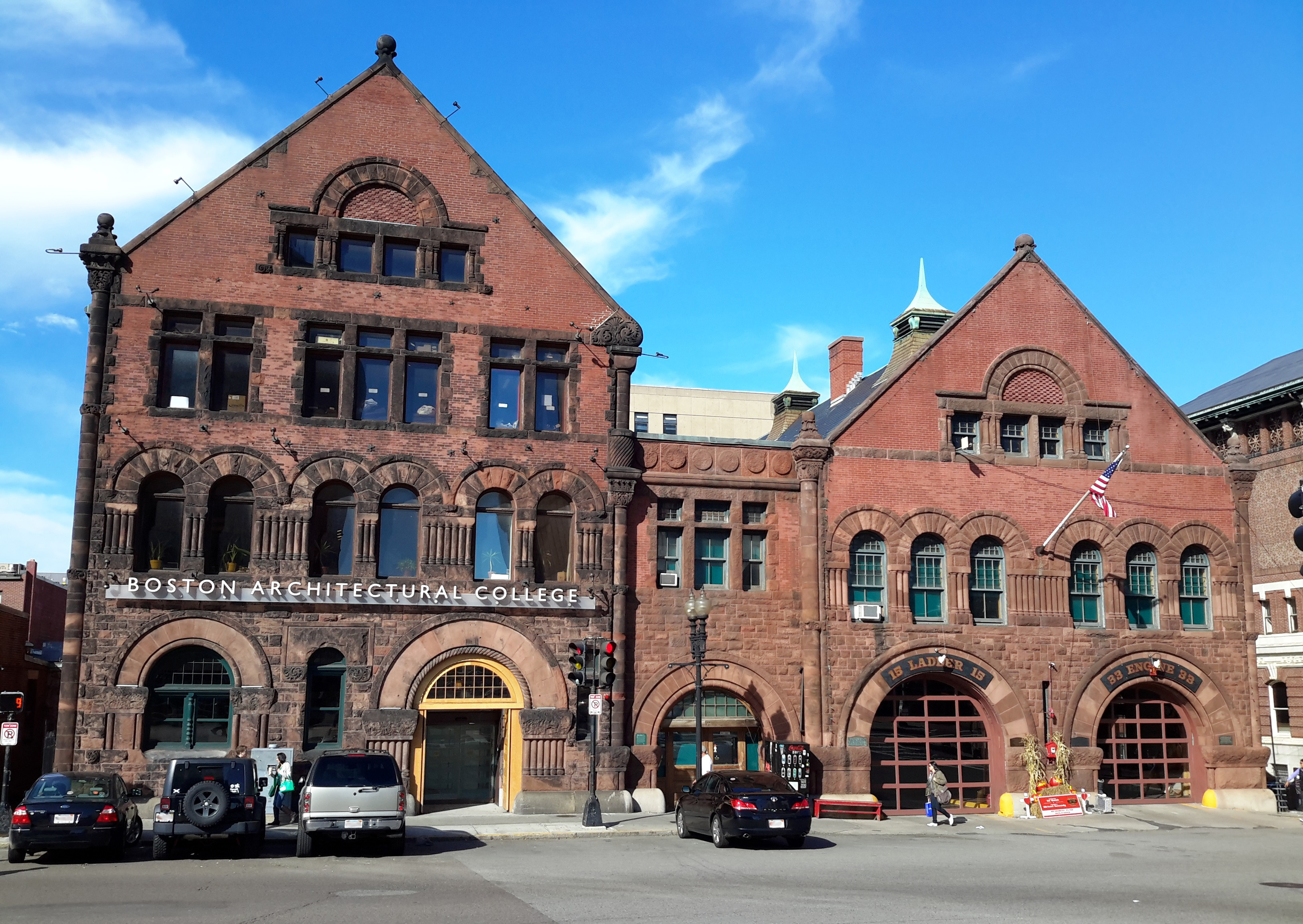 941-955 Boylston Street in Back Bay, Boston. The building on the left is occupied by the Boston Architectural College, while the building on the right houses Engine Company 33 and Ladder Company 15 of the Boston Fire Department.